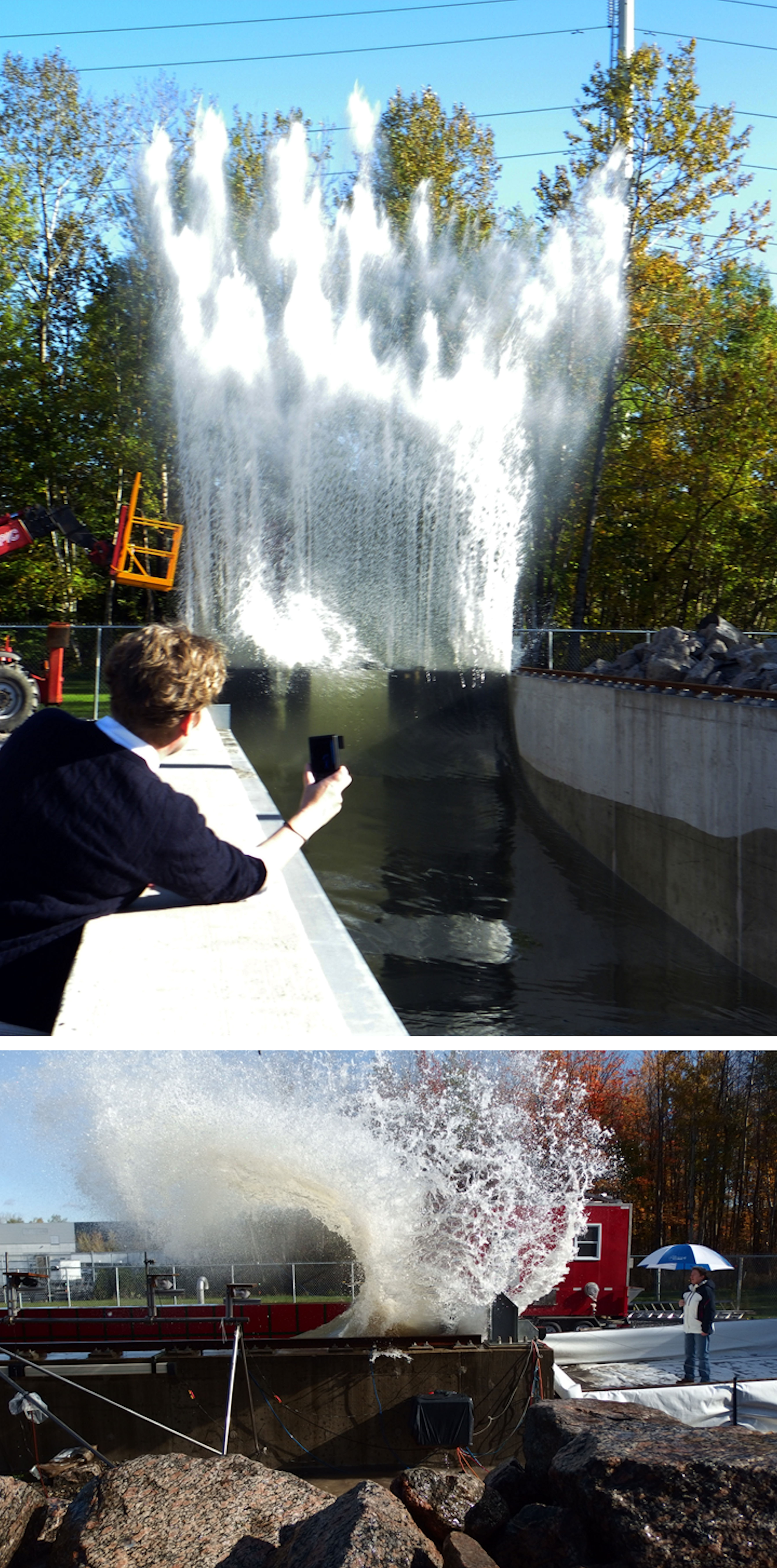 Large scale (1:2) wave impact on vertical wall with/without parapets (2015) in INRS facility.